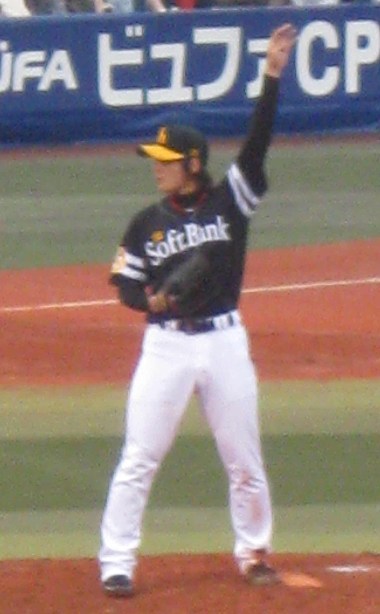 Toshiya Sugiuchi, pitcher of the Fukuoka SoftBank Hawks, at Yokohama Stadium.